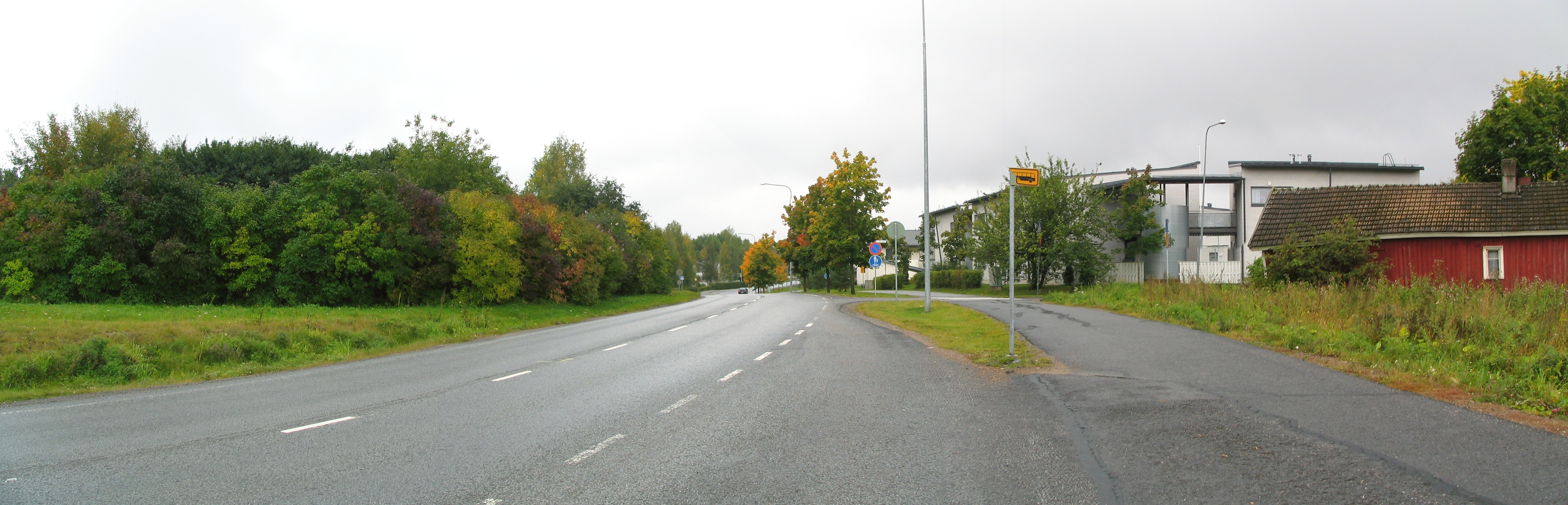 View from Pohjantie, Ristonmaa, Jyväskylä, Finland. Composite of multiple photos.